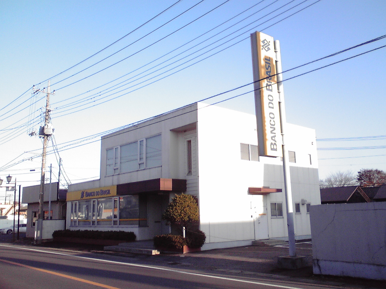 This is the Ibaraki sub-branch of Banco do Brasil.It is in Ibaraki-ken, Joso-shi, Mitsukaido Fuchigashira-machi 2909-1, Japan.